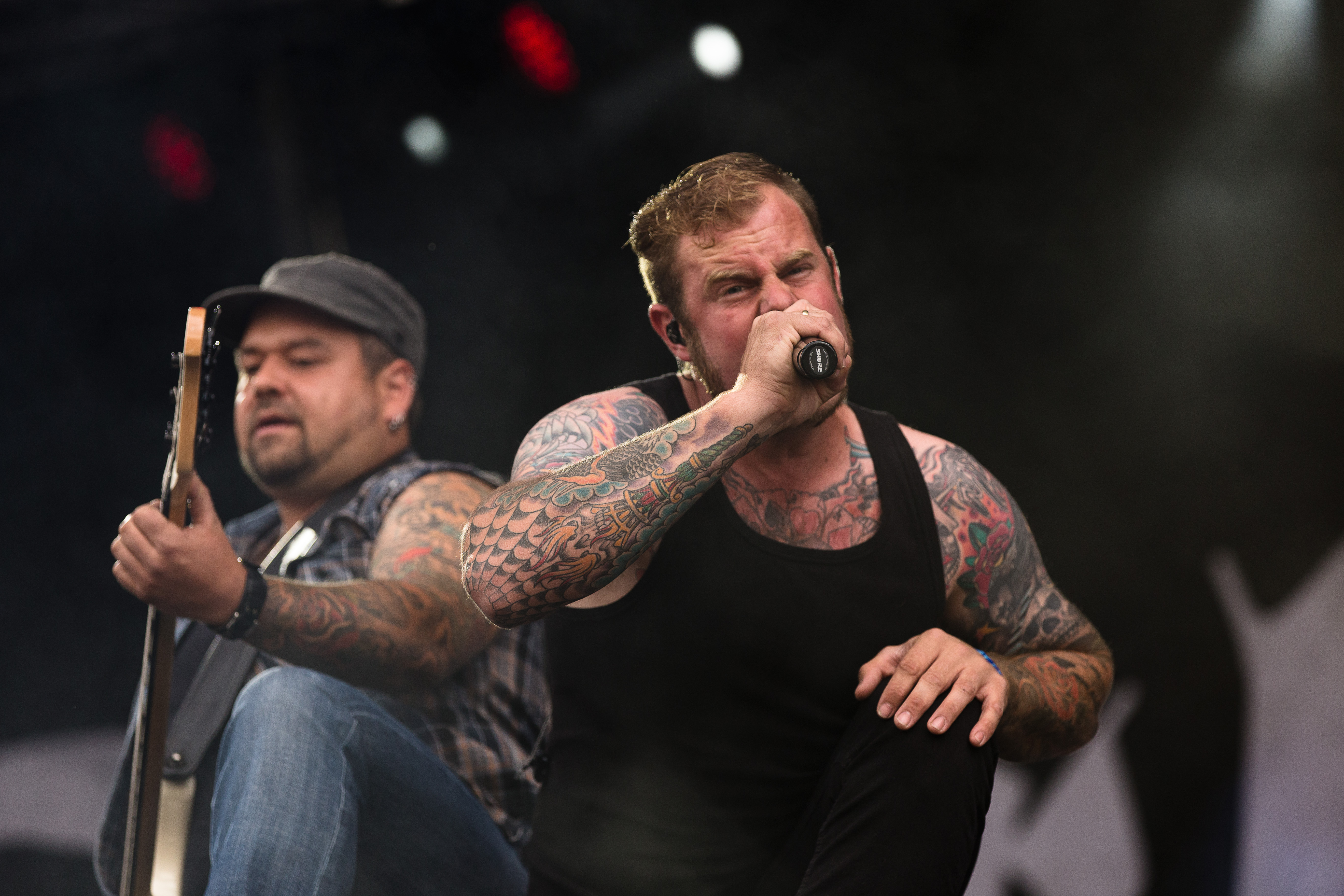 The German rock band Kärbholz at the Rockharz Open Air 2016 in Ballenstedt/Germany.